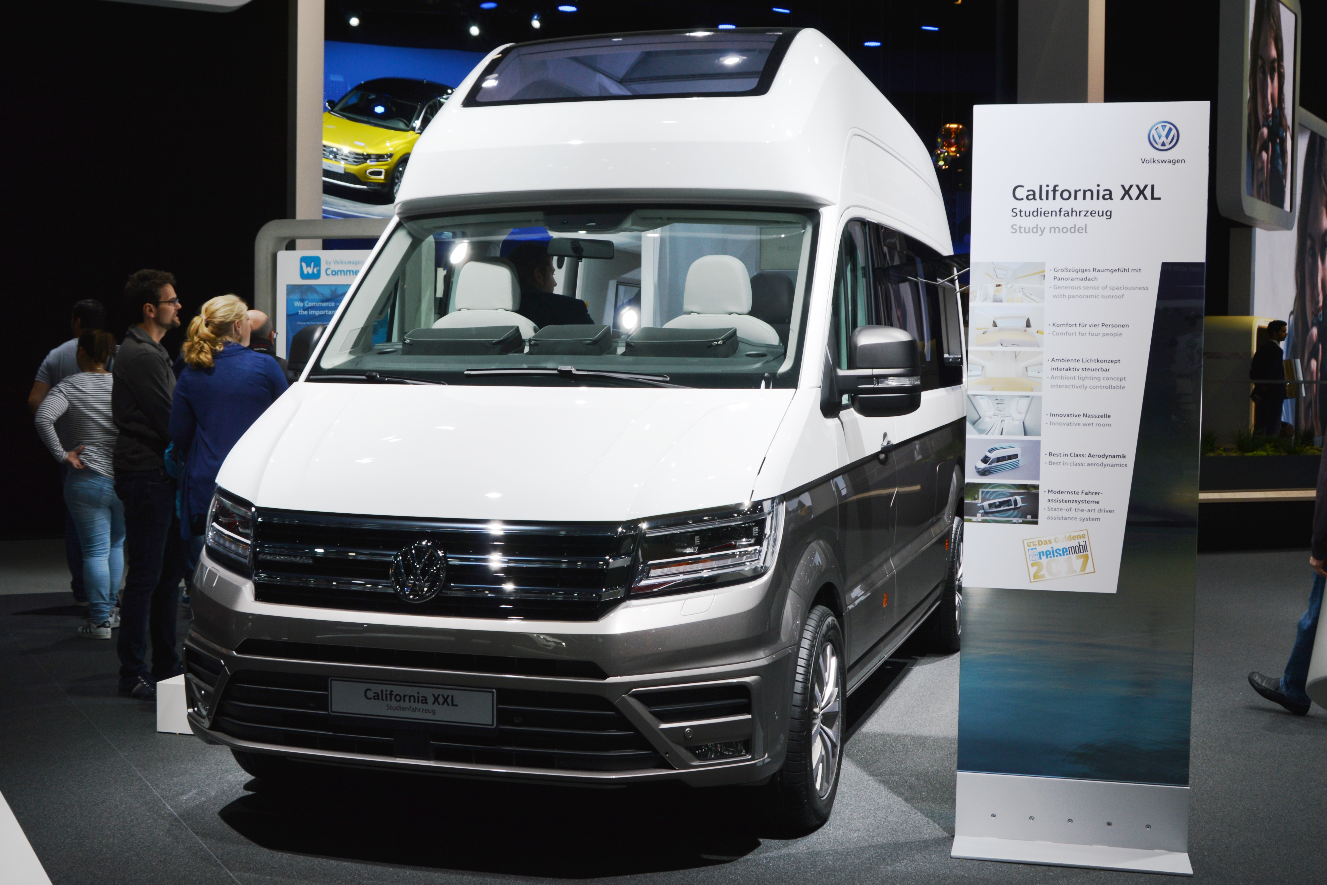 Volkswagen California XXL concept car. Photo taken at IAA 2017.